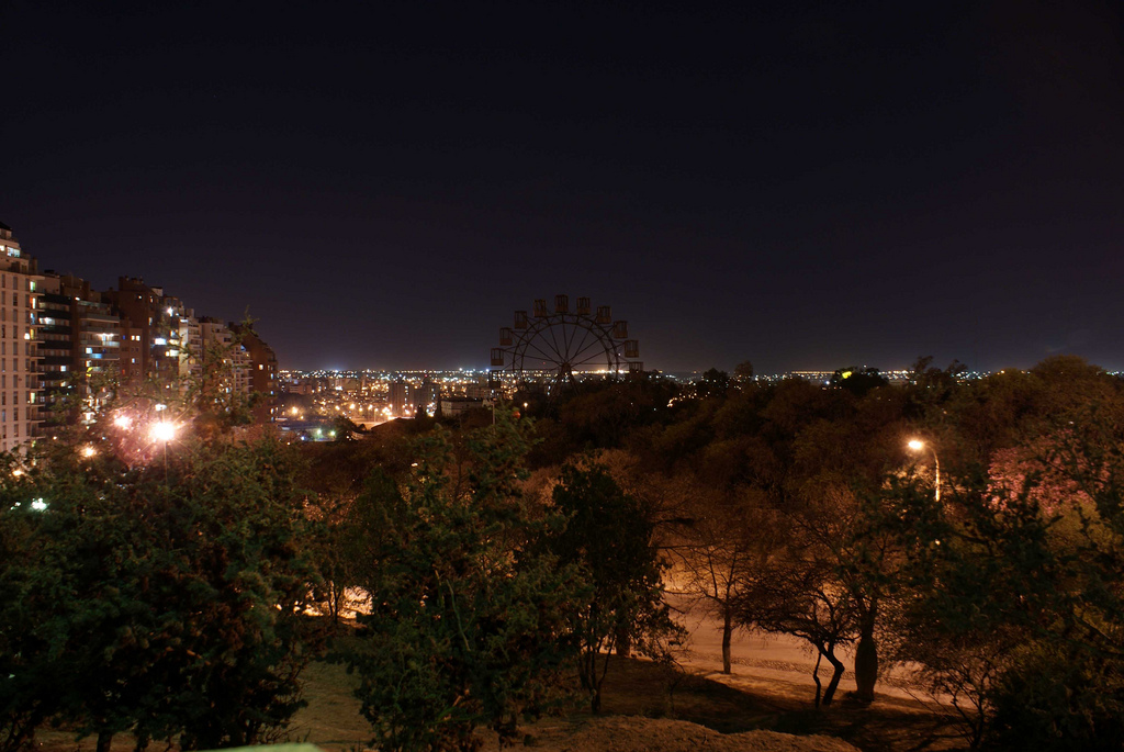 Night view of Sarmiento park. In the background can be seen the Ferris wheel. Cordoba, Argentina.